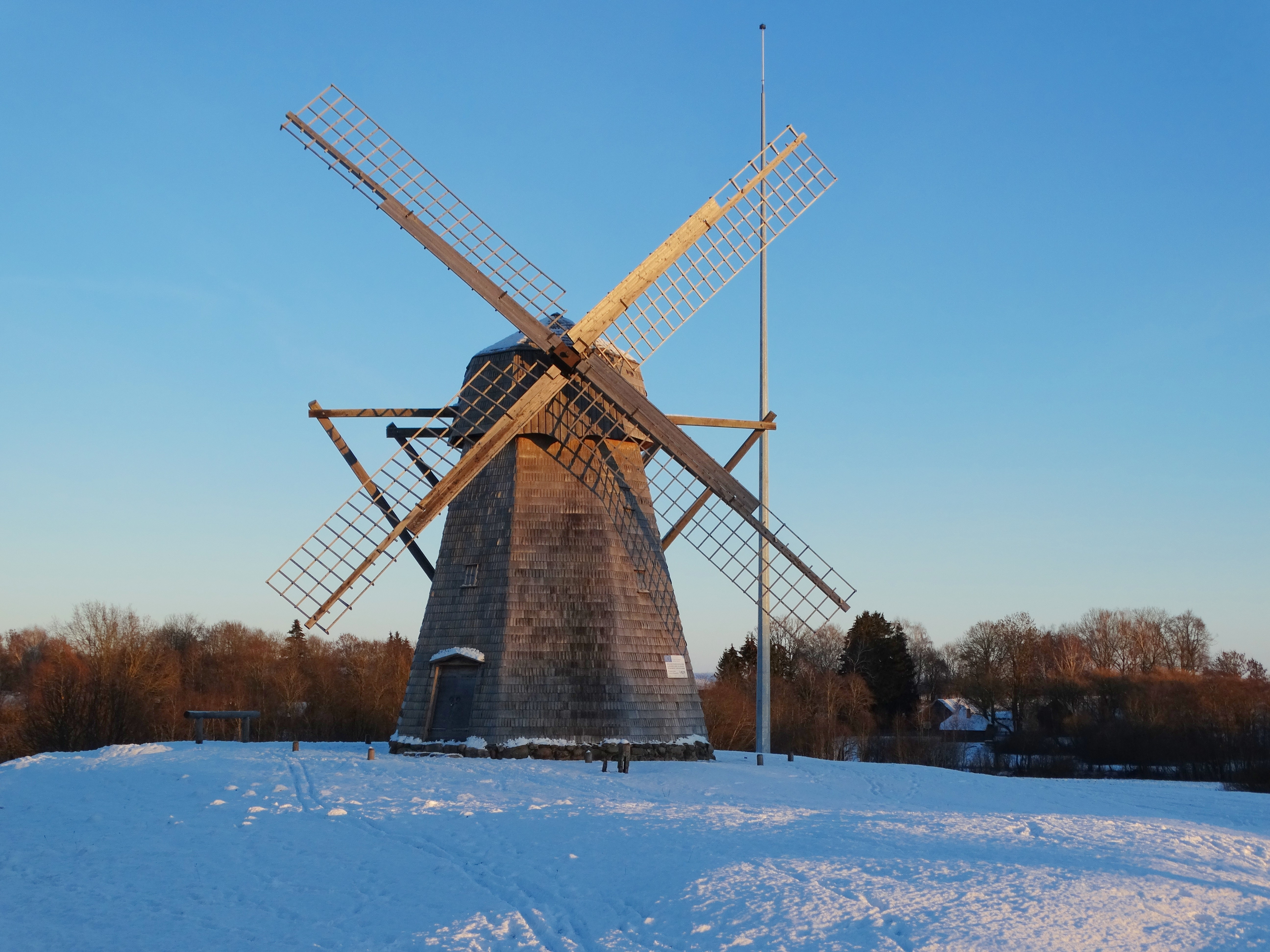 Windmill in Kleboniškiai, Radviliškis District, Lithuania